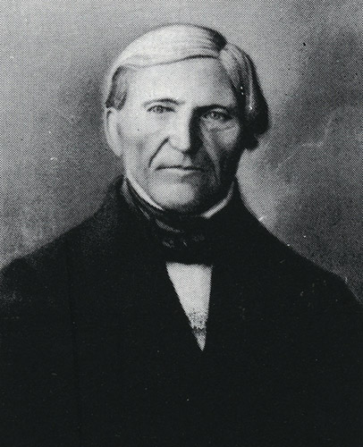 The founder of Raahe Museum, Carl Robert Ehrström (1803-1881).